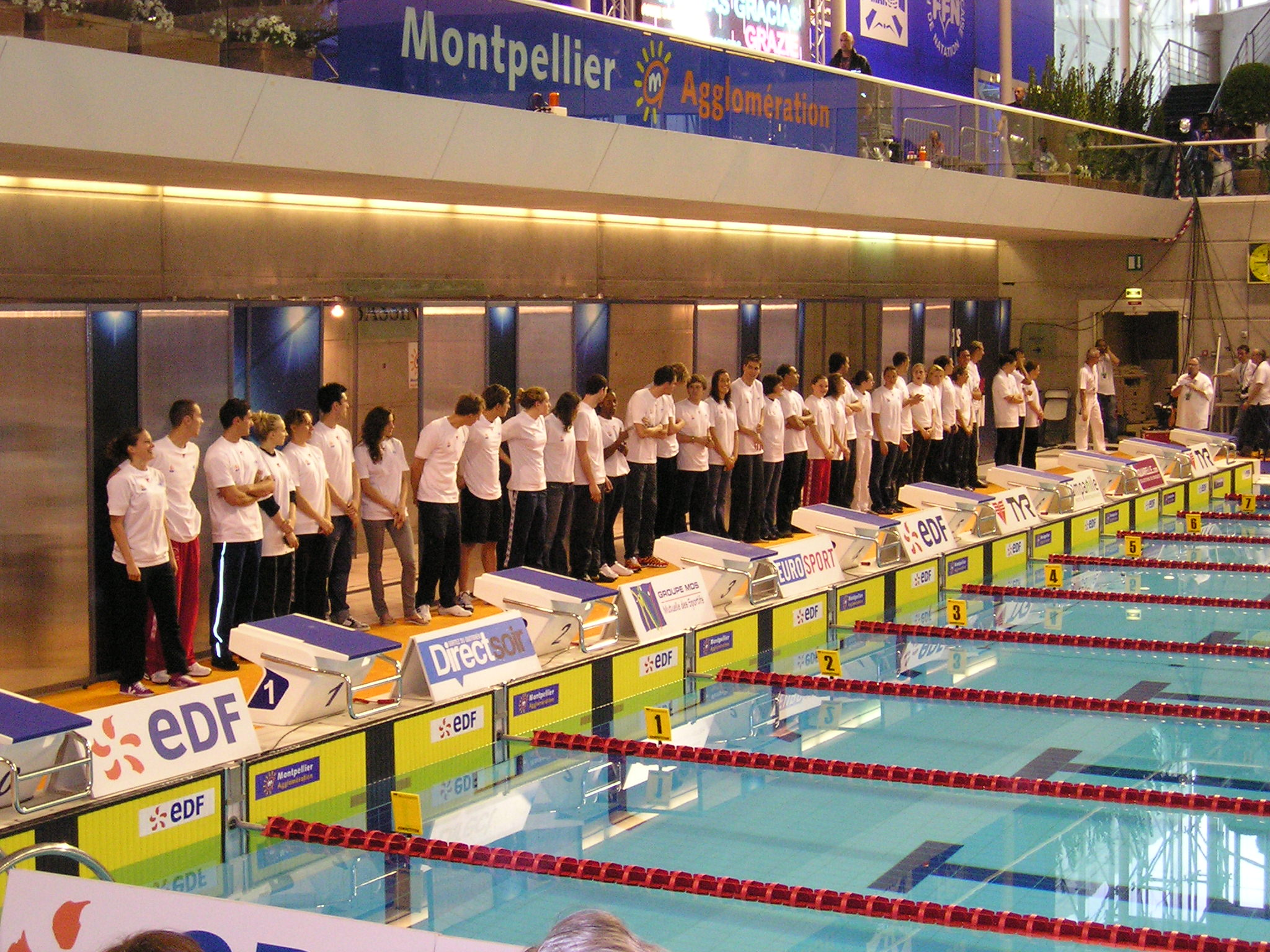 French Swimming Championships, Montpellier, 26 April 2009 afternoon: presentation of the 35 swimmers qualified in France's team sent to the Rome 2009 World Swimming Championships.